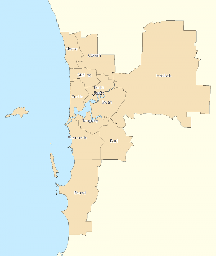 Incorporates or developed using Administrative Boundaries ©PSMA Australia Limited licensed by the Commonwealth of Australia under Creative Commons Attribution 4.0 International licence (CC BY 4.0). Derived from State and Territory Boundaries from the Australian Bureau of Statistics under Creative Commons Attribution 2.5 Australia license (CC BY 2.5 AU)